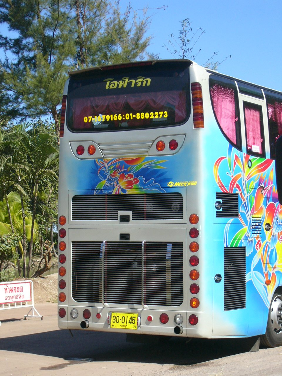 Back side of a coach (seen in Thailand). Note the many lights.